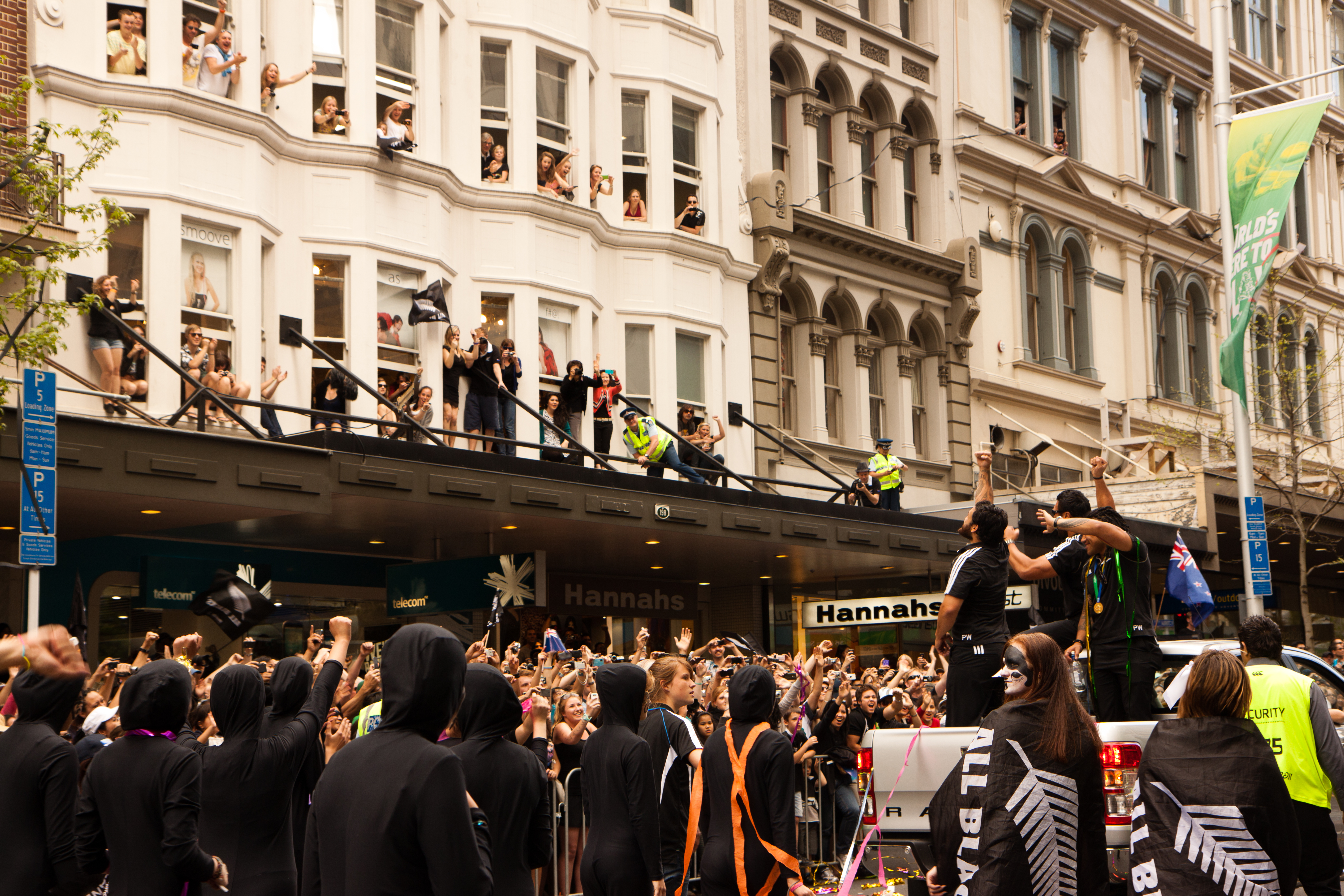 Parade in Auckland after winning by New Zealand national team 2011 Rugby World Cup.